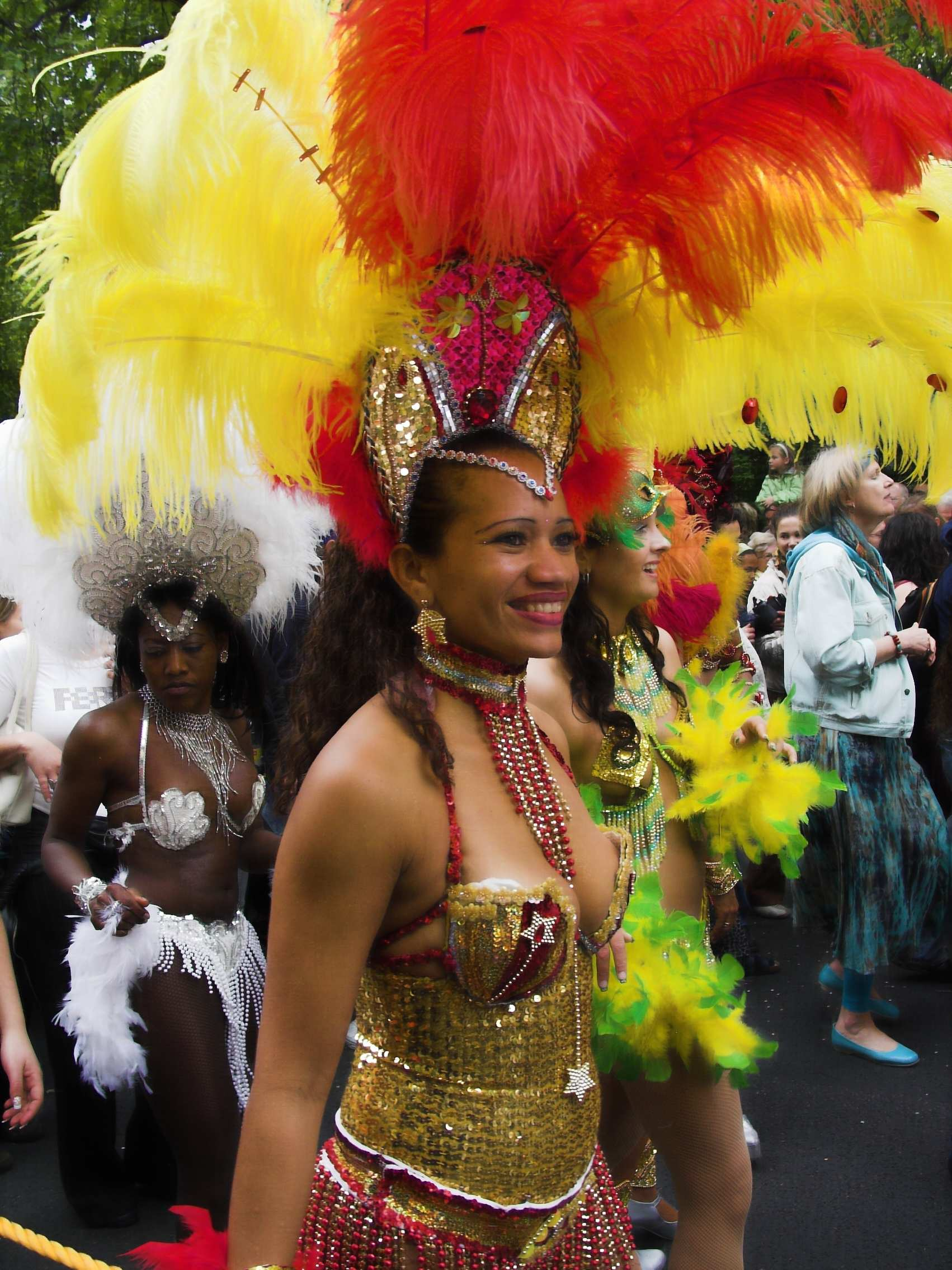 Carnival of cultures, Berlin May 2005 Karneval der Kulturen in Berlin